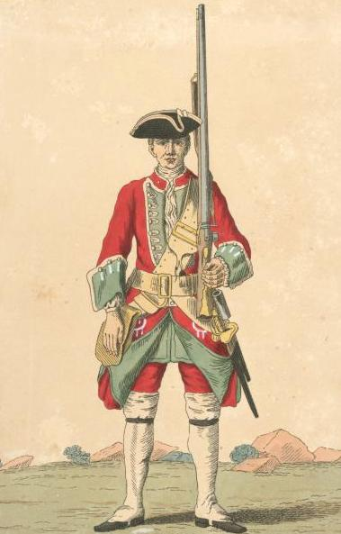 Soldier of the 5th regiment (1742)